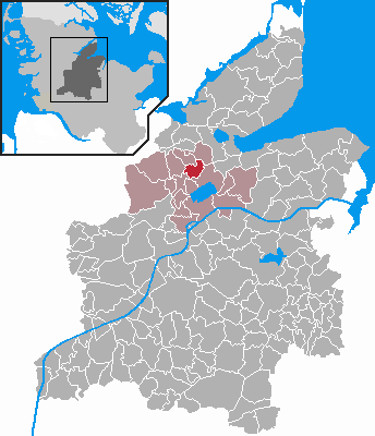 Locator maps of municipalities in Schleswig-Holstein - District Rendsburg-Eckernförde